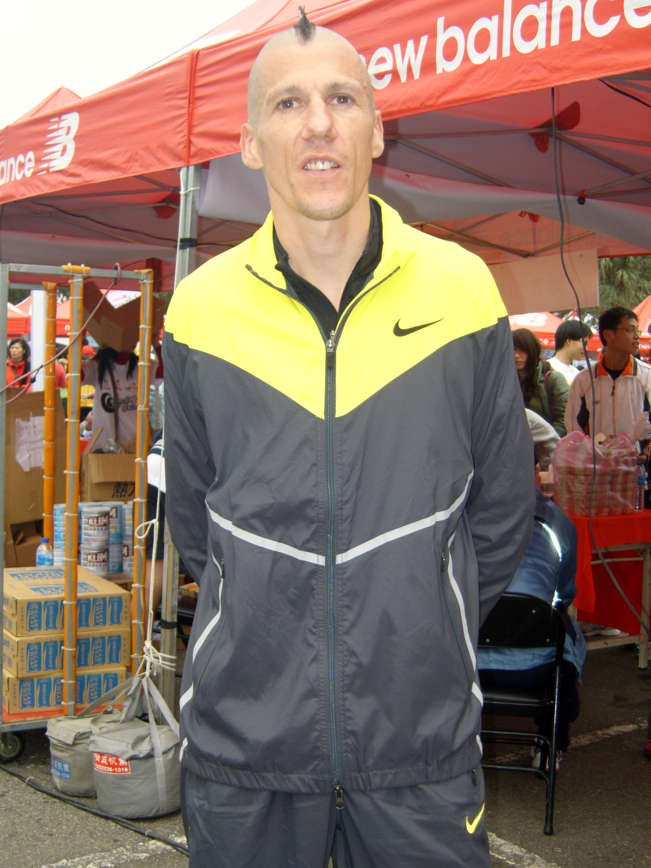 2008 Taipei County Jin Shi International Marathon: Rik Ceulemans, a Belgian marathon runner.